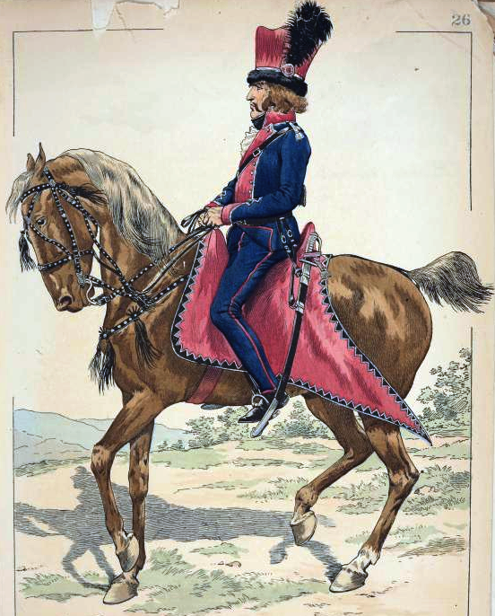 Officer of the Cavalry of Polish Legions in Italy (1799).